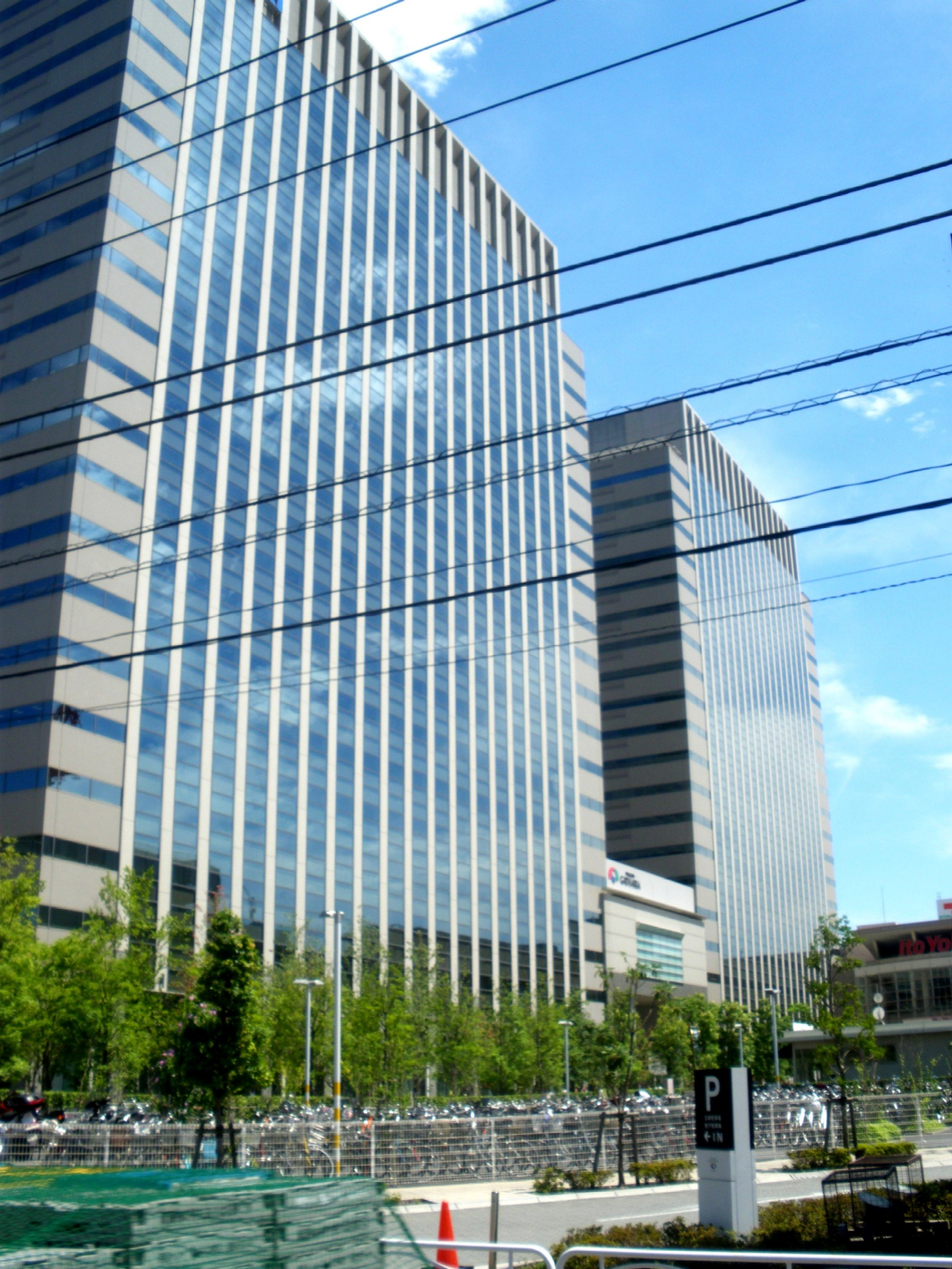 Fukagawa Gatharia(Kiba,Koto,Tokyo)